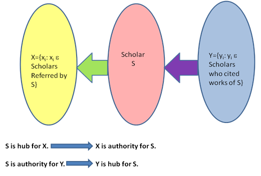 This image shows the connectivity of author 'S' for hub-authority indices.